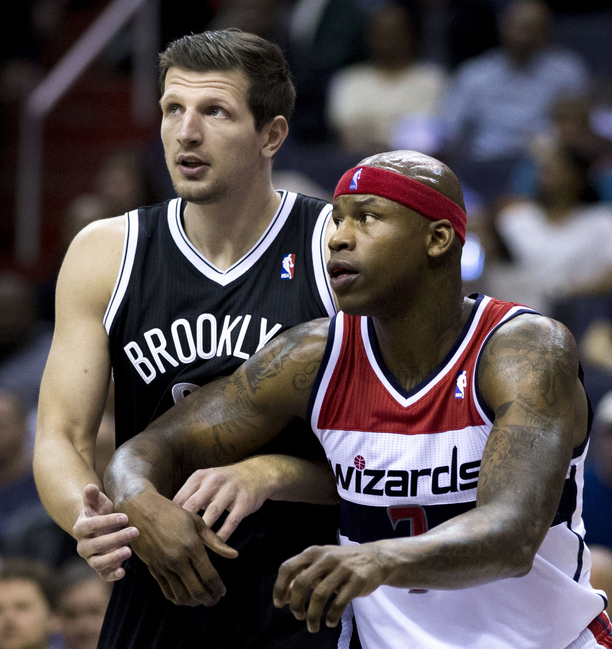 Nets at Wizards 3/15/14